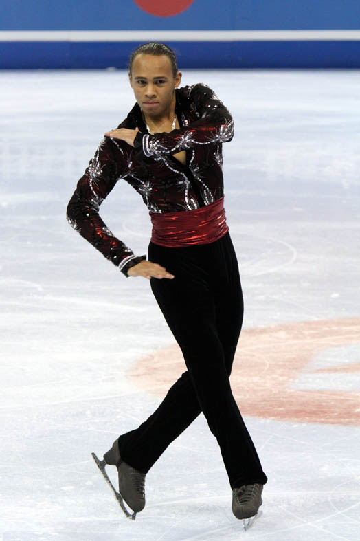 Elladj Baldé at the 2011 Canadian Figure Skating Championships